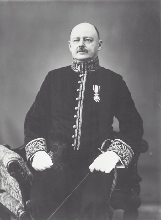 Studio portrait of L.F. Dingemans, Resident of Yogyakarta